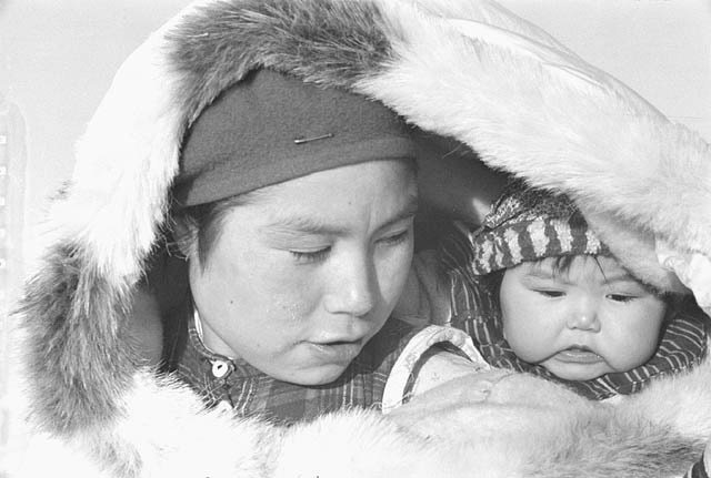 'Martha Nulukie & daughter Louisa' ~ (Inuit) ~ Inukjuak, Quebec 1947